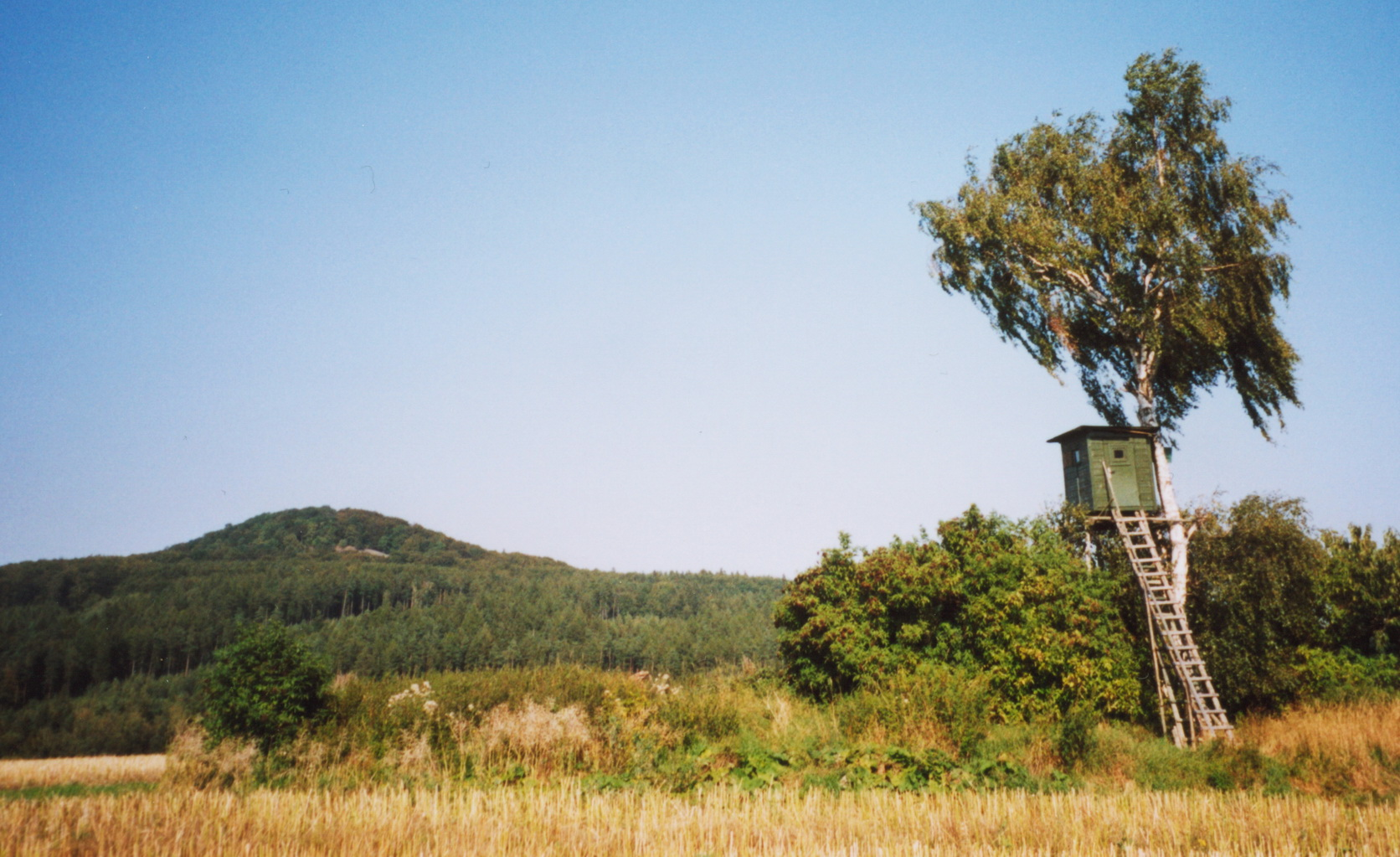 Stopfelskuppe in the Thuringian Rhön